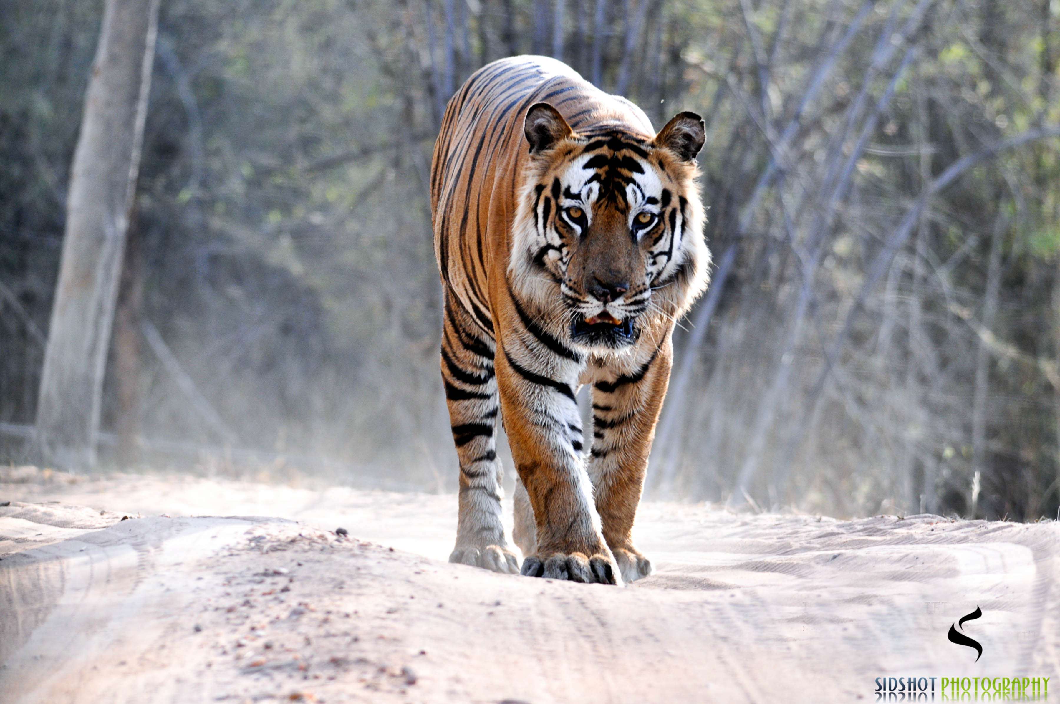 this photo was clicked in bandhavgarh national park of madhya pradesh India. Bamera is a dominant male tiger of tala zone